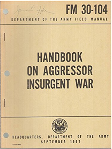 Cover of US Department of the Army (September 1967). Handbook on Aggressor Insurgent War. US Government Printing Office. Field Manual 30-104 ASIN:B01FB7EDW2